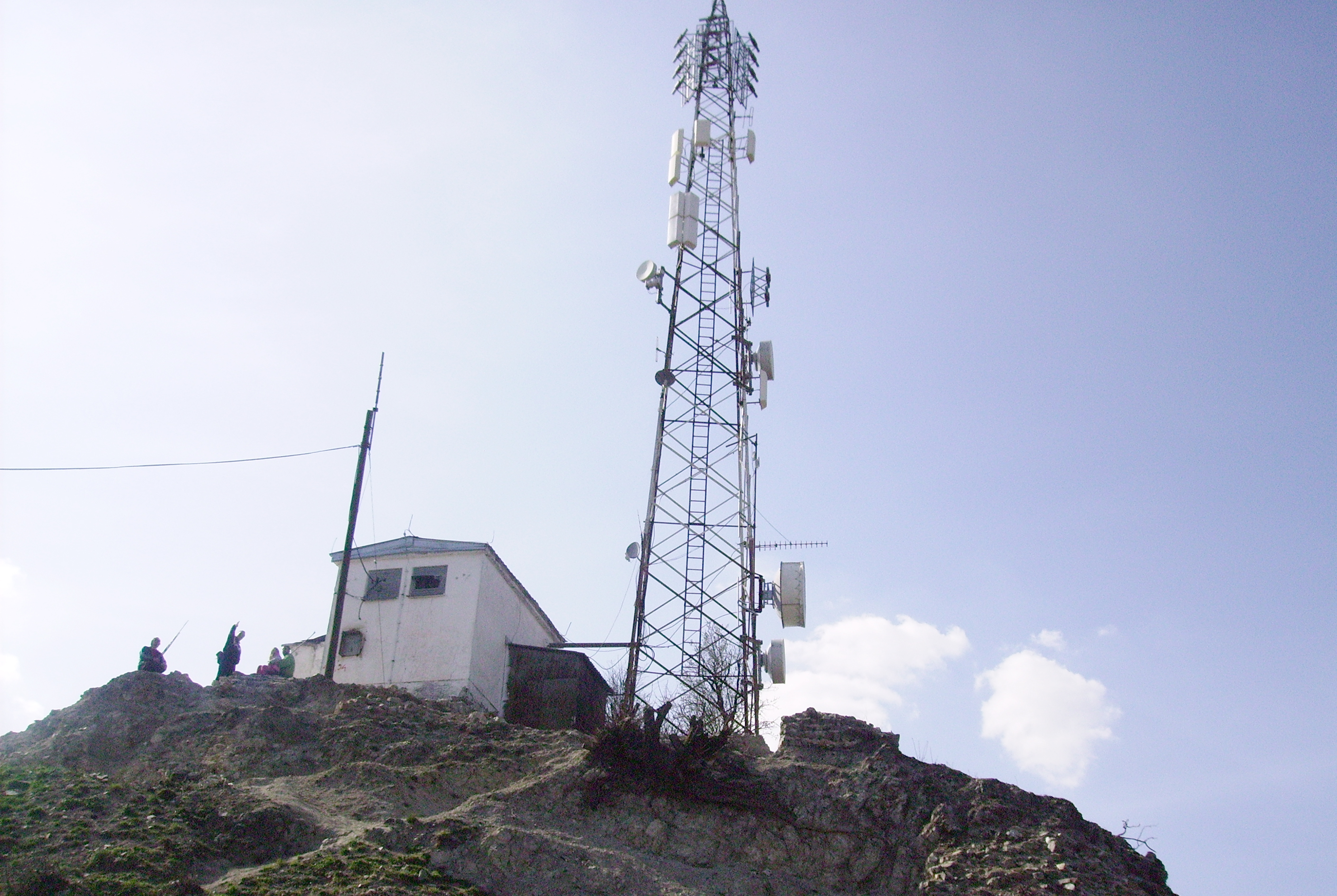 Carevi Kuli